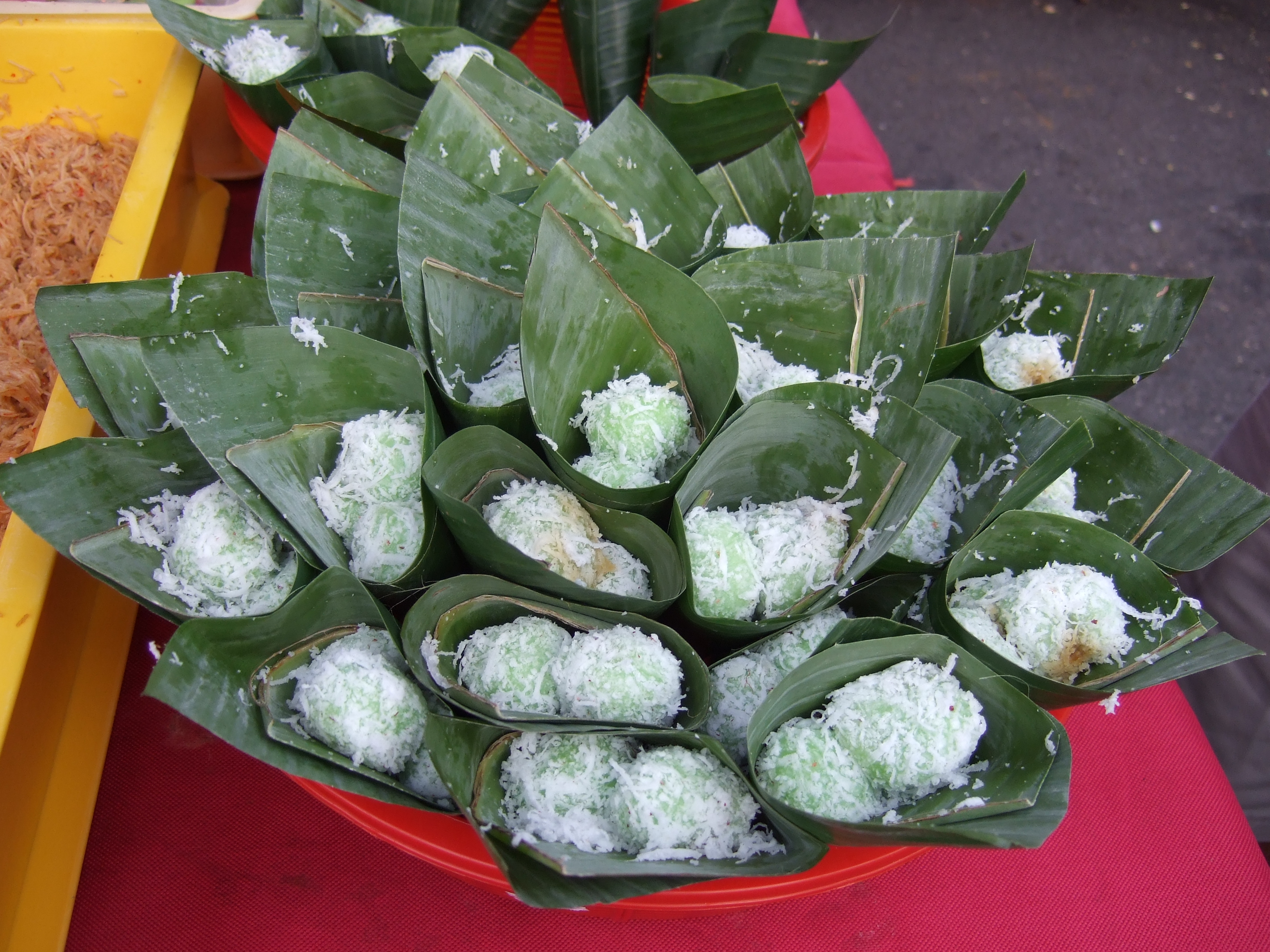 Onde-onde filled in grated coconut and gula melaka (a palm sugar). The green bit is a glutinous rice flour mixed with sweet potato and flavoured with pandan (screwpine).